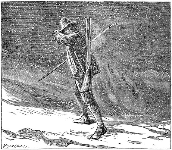 From 'Andersens Sproken en vertellingen' by Hans Christian Andersen, Titia van der Tuuk (ed.) and Simon Jacob Andriessen (trans.). Gebroeders E. & M. Cohen, Nijmegen - Arnhem. Illustrated by Alfred Walter Bayes (1832-1909) and engraved by the Dalziel Brothers (Edward Daziel, 1817-1905; George Daziel, 1815-1902).